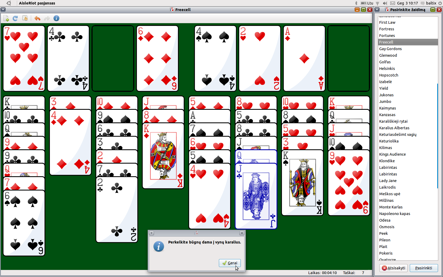 Screenshot of Freecell Solitaire game in AisleRiot software running on Baltix GNU/Linux Desktop 2011/Ubuntu Linux 11.04 operating system with Unity desktop interface.